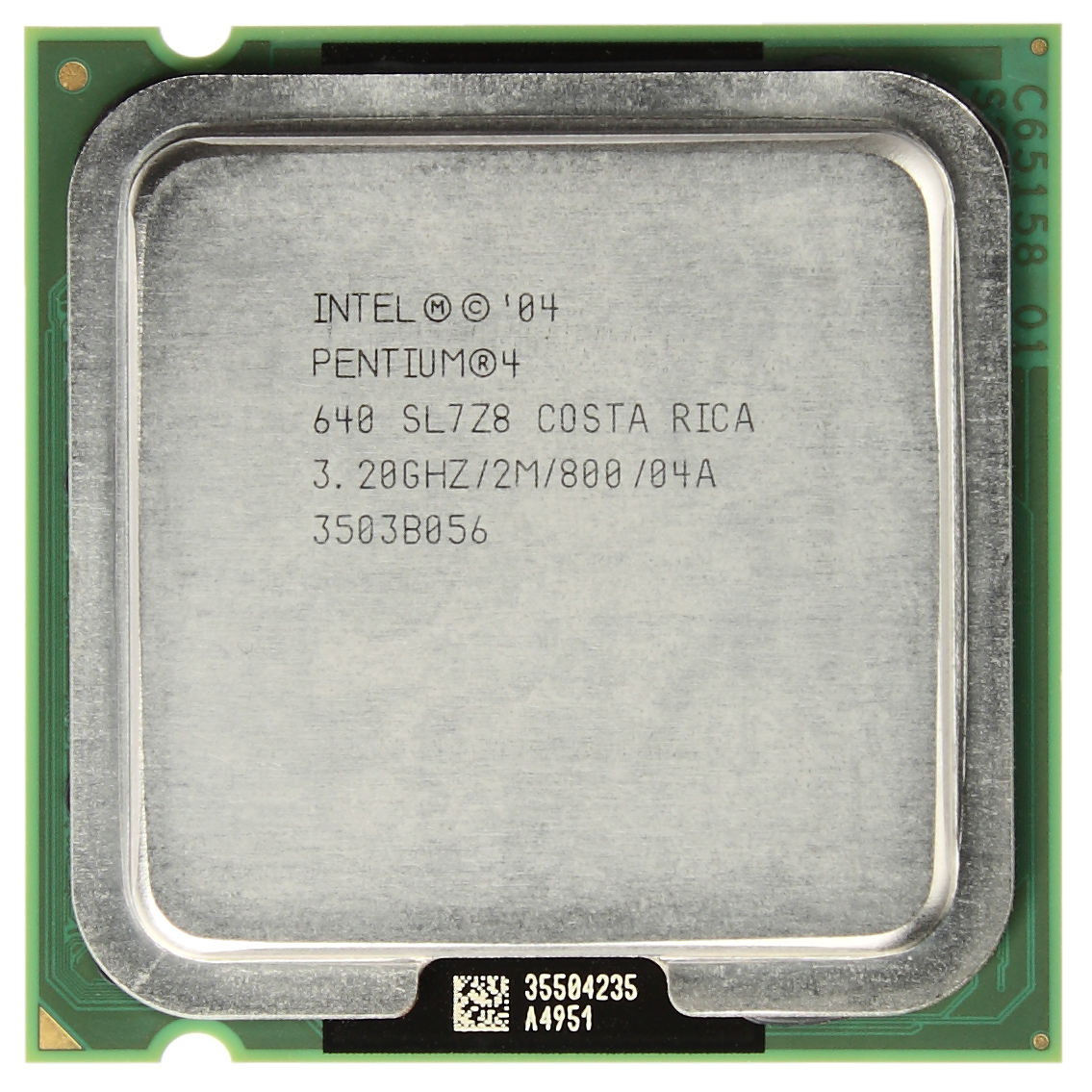 Top view of an Intel central processing unit Pentium 4 Prescott type core, model 640. LGA 775 socket, 90 nm process, frequency 3.20 GHz.